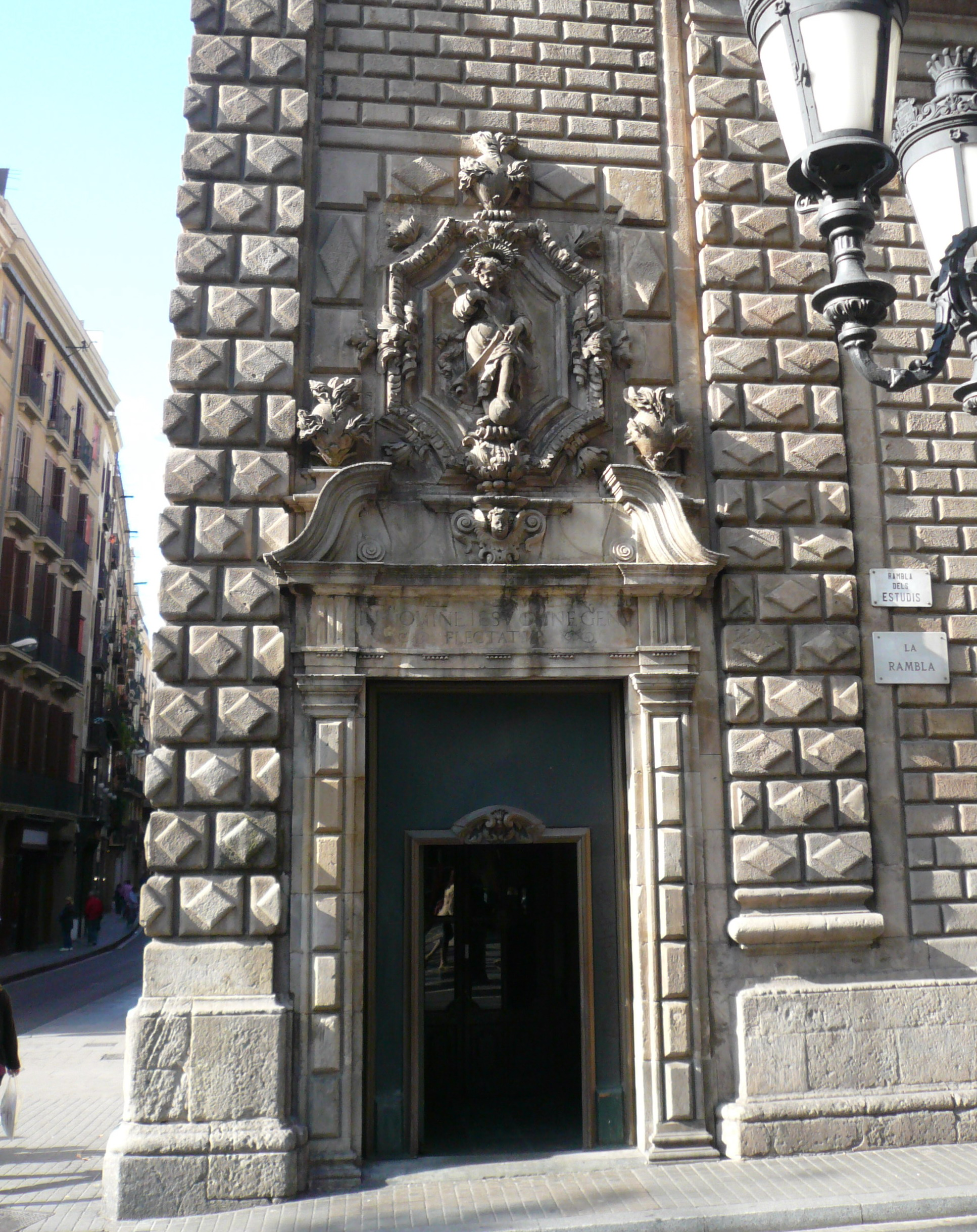 Jesus child by Francesc Santacruz, Betlem church, Ramblas of Barcelona (with a Latin quotation from Philippians, 2:10)